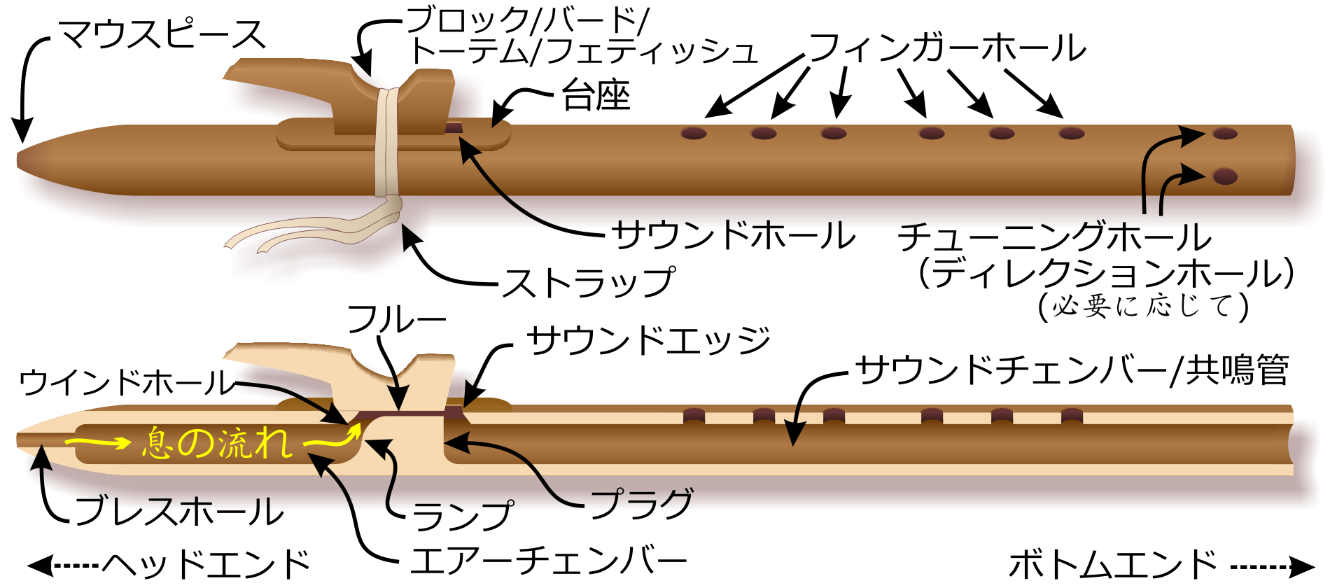 Native American flute Composite Anatomy with Japanese-language labels